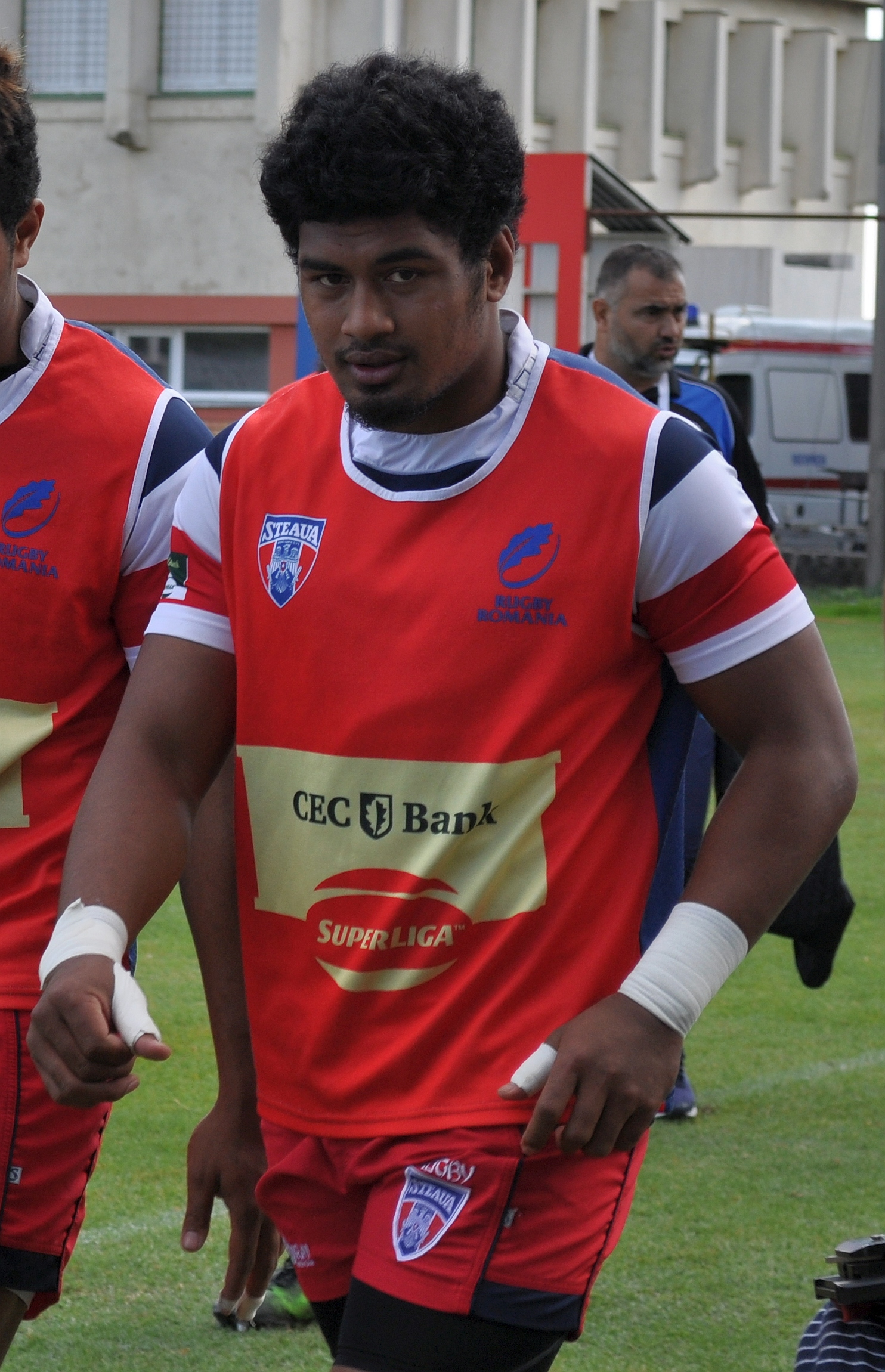 Tongan rugby union football player Oneone Patelesio, player of CSA Steaua București rugby club seen training before a match against CSM Baia Mare in Round 5 of Romanian Rugby SuperLiga in September 2017